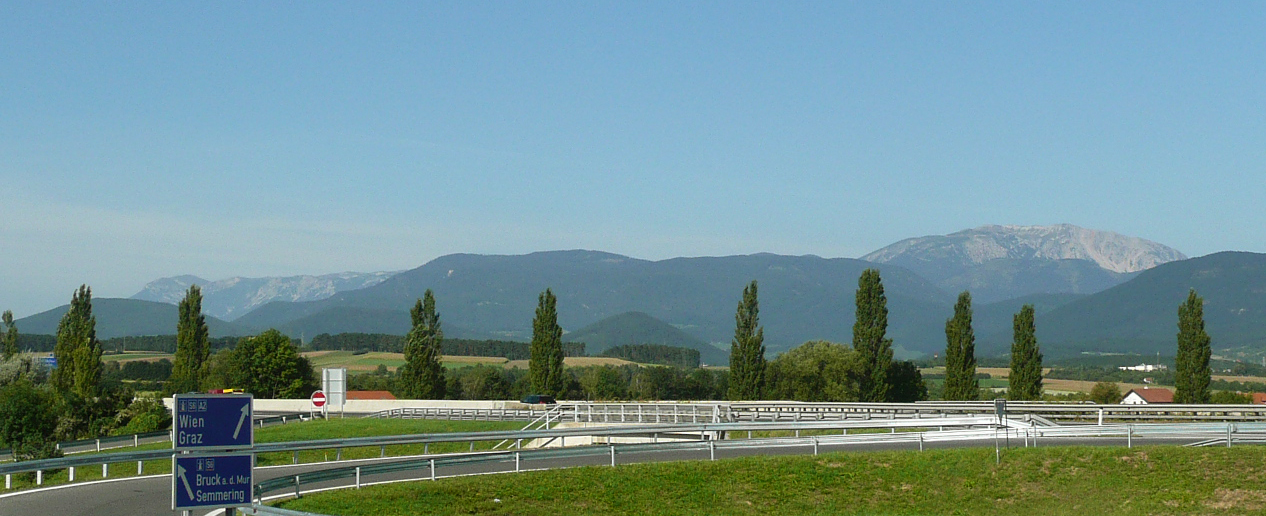 The Schneeberg (2076 m) the top of Lower-Austria, viewed 24 km to the west, from Natschbach